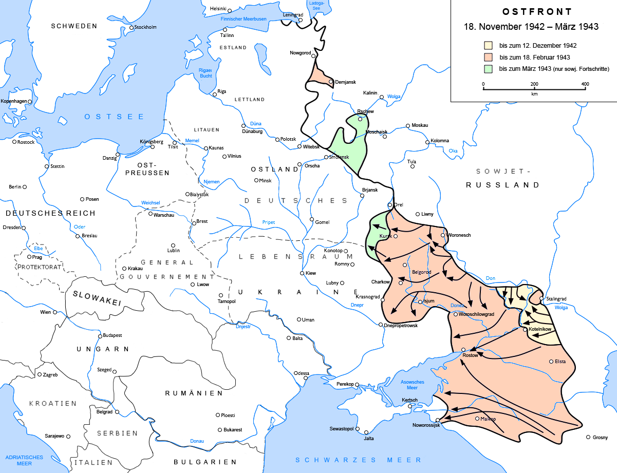 Soviet advances on the Eastern Front (WWII), 1942-11-18 to March 1943